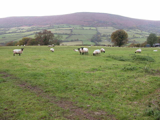 Sheep in a field beside Welsh Hunthouse Here the Black Mountains fill the western horizon.